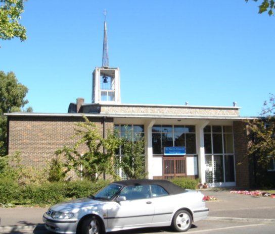 St Mary's Church, Southgate, Crawley, West Sussex.